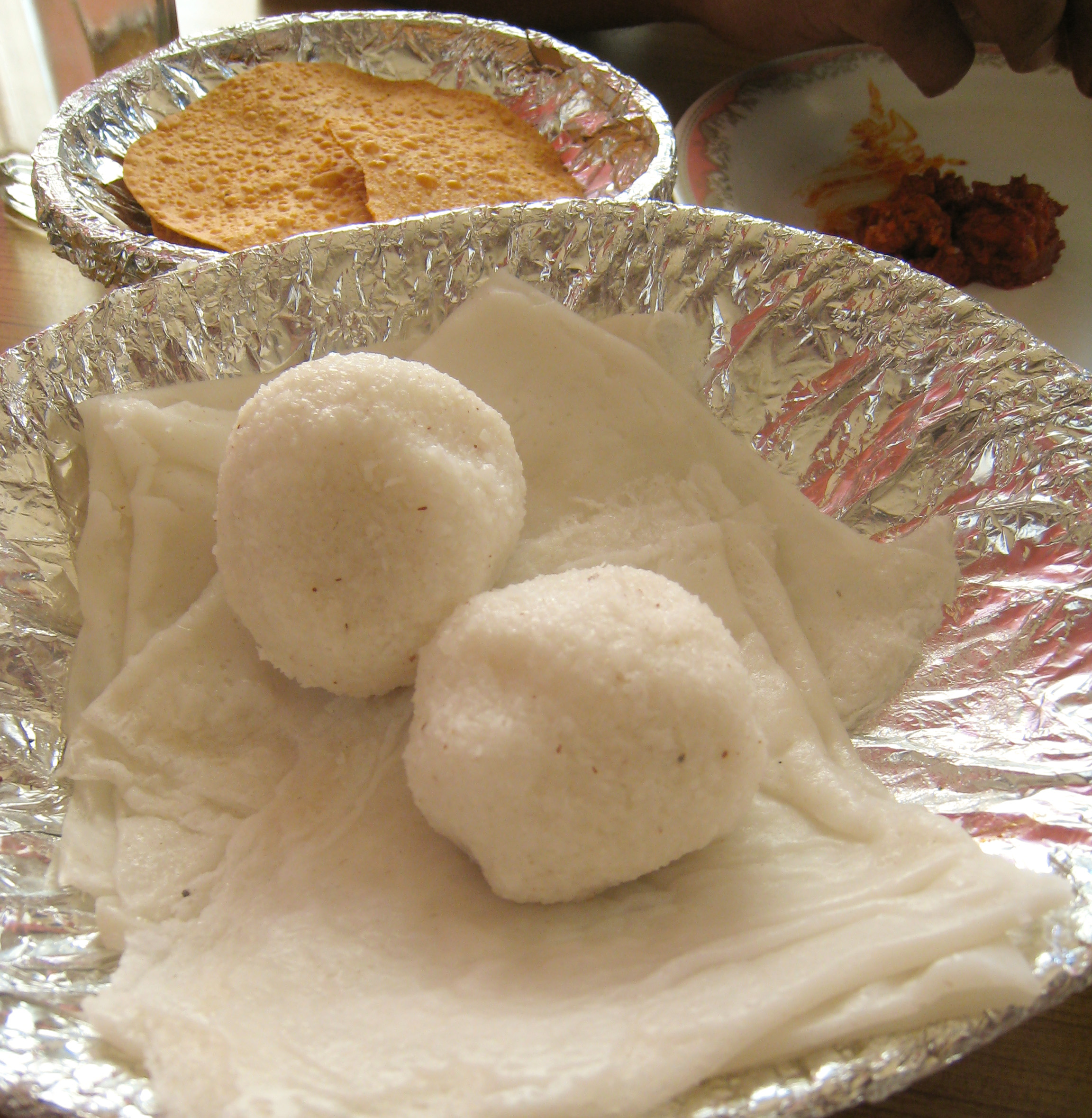 This is a Neer Dosa and there are two rice balls on it.